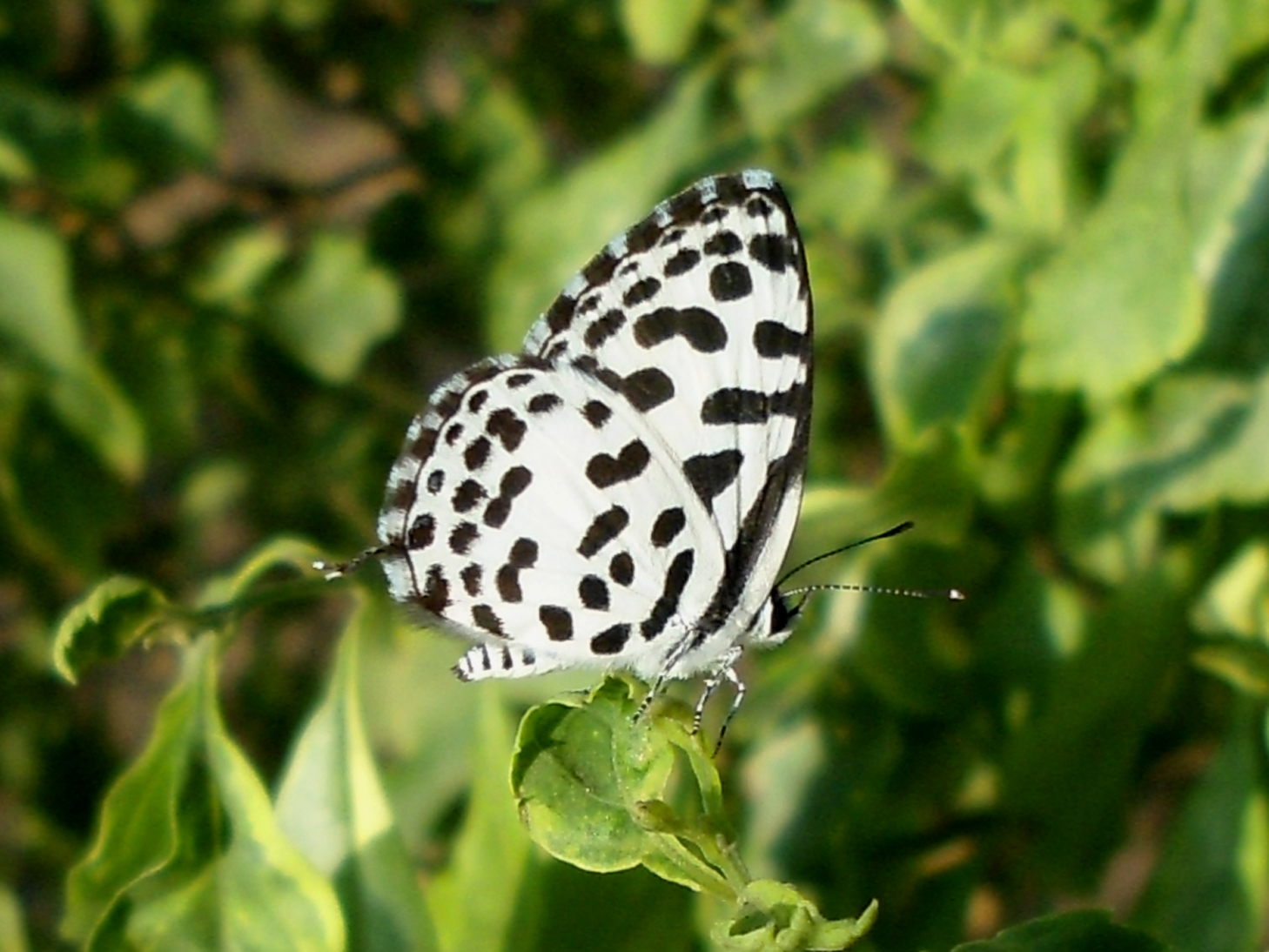 (Castalius rosimon) Common pierrot at Gandhinagar park, Kakinada